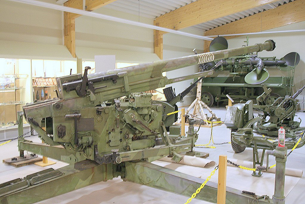 Skoda 75 mm anti-aircraft cannon model 1937 year One of the 20 Czech anti-aircraft cannons acquired by Finland during the WWII in the anti-aircraft museum of Finland (Ilmatorjuntamuseo) in Hyryla of Tuusula in Finland.